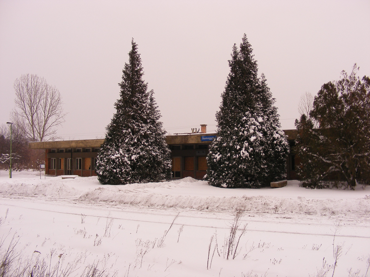 Somogyjád railway station